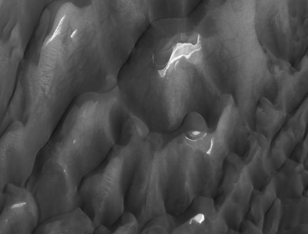 Lyot Crater Dunes, as seen by hirise. Location is 50.3 degrees norht latitude and 28.9 degrees east longitude. Image was taken by the Mars Reconnaissance Orbiter's HiRISE. The HiRISE camera was built by Ball Aerospace and Technology orporation and is operated by the University of Arizona. Image courtesy NASA/JPL/University of Arizona.